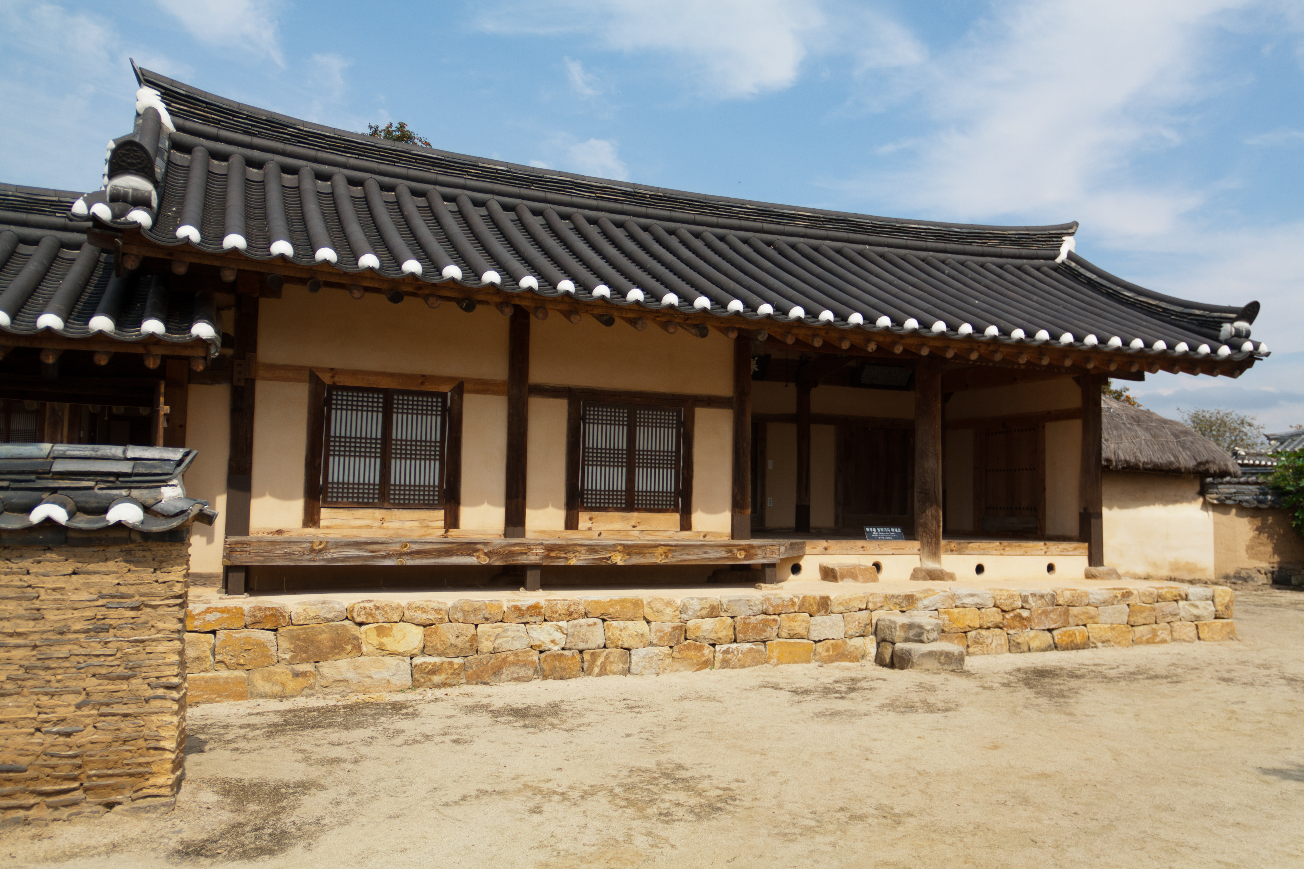 Juiljae House, Hahoe